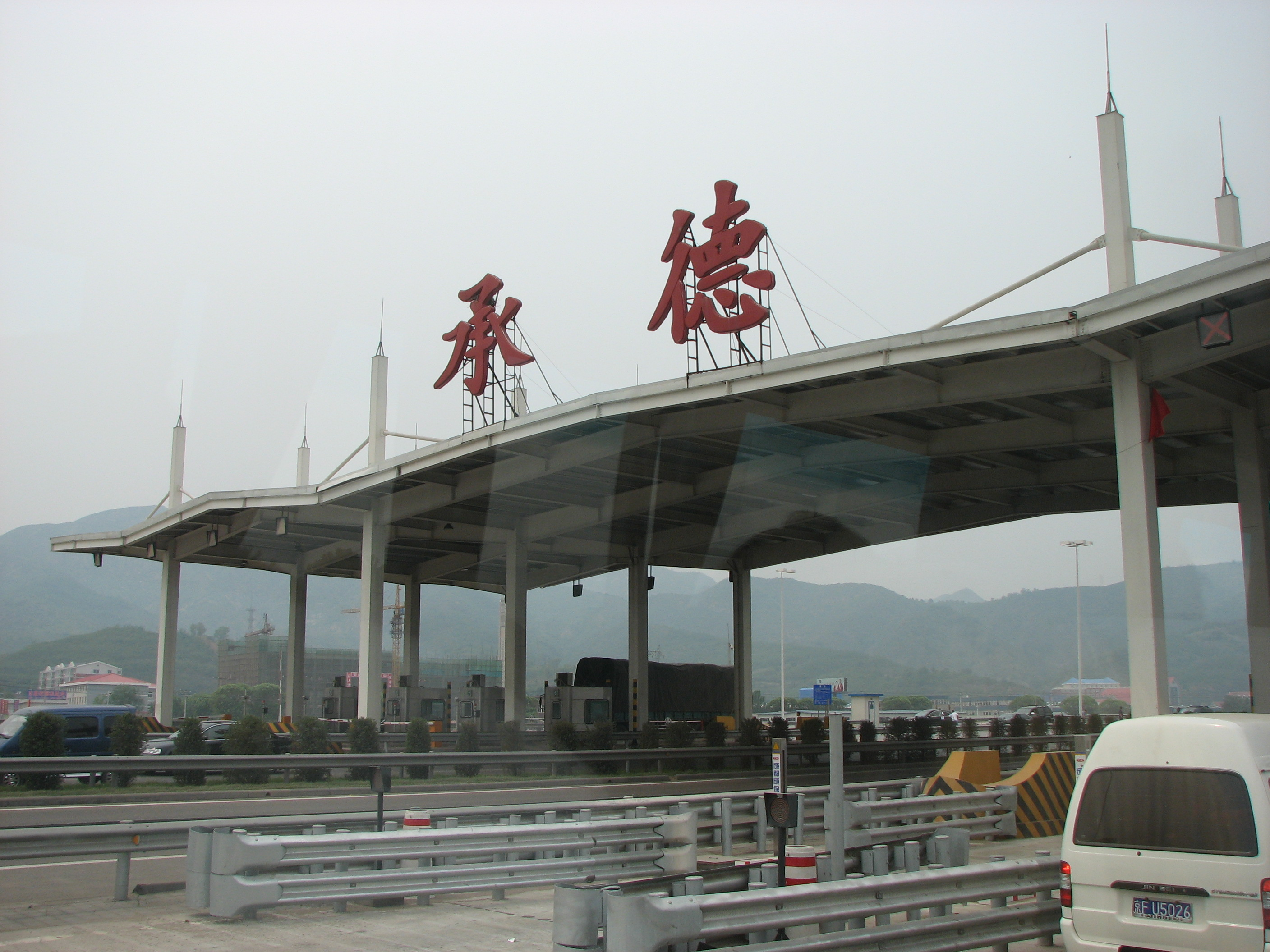 Chengde toll booth.